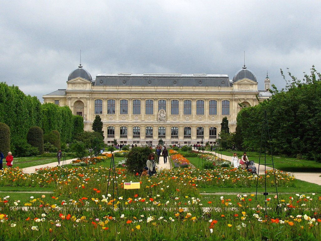 Façade of the grande galerie de l'Évolution (Gallery of Evolution), which is a zoology museum building belonging to the French National Museum of Natural History. The building is located in the Jardin des plantes in Paris.